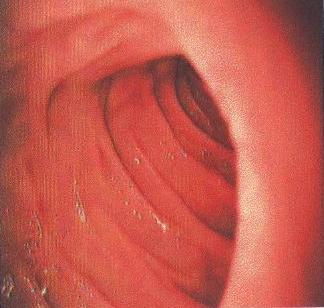 Lumen of the duodenum of a healthy human male. White spots are reflections of the light source.